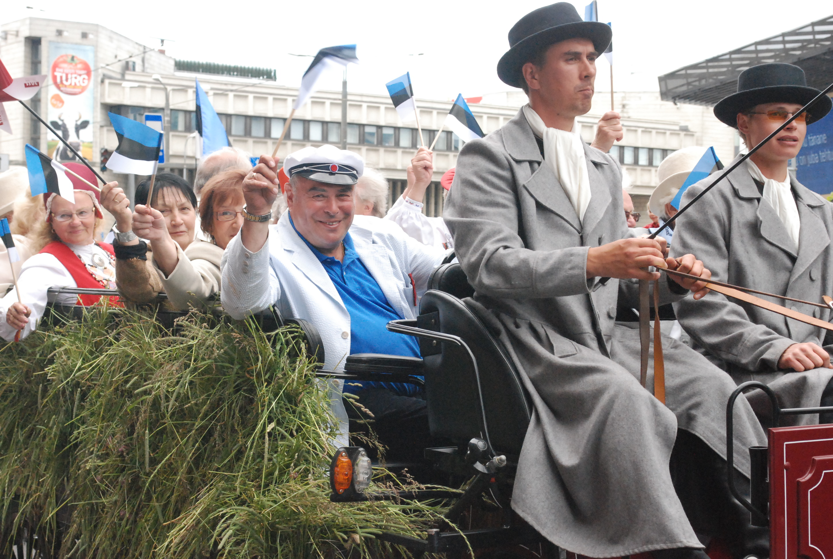 Estonian Song and Dance Celebration festive parade with more than 100 000 people. Photo: Egon Tintse.